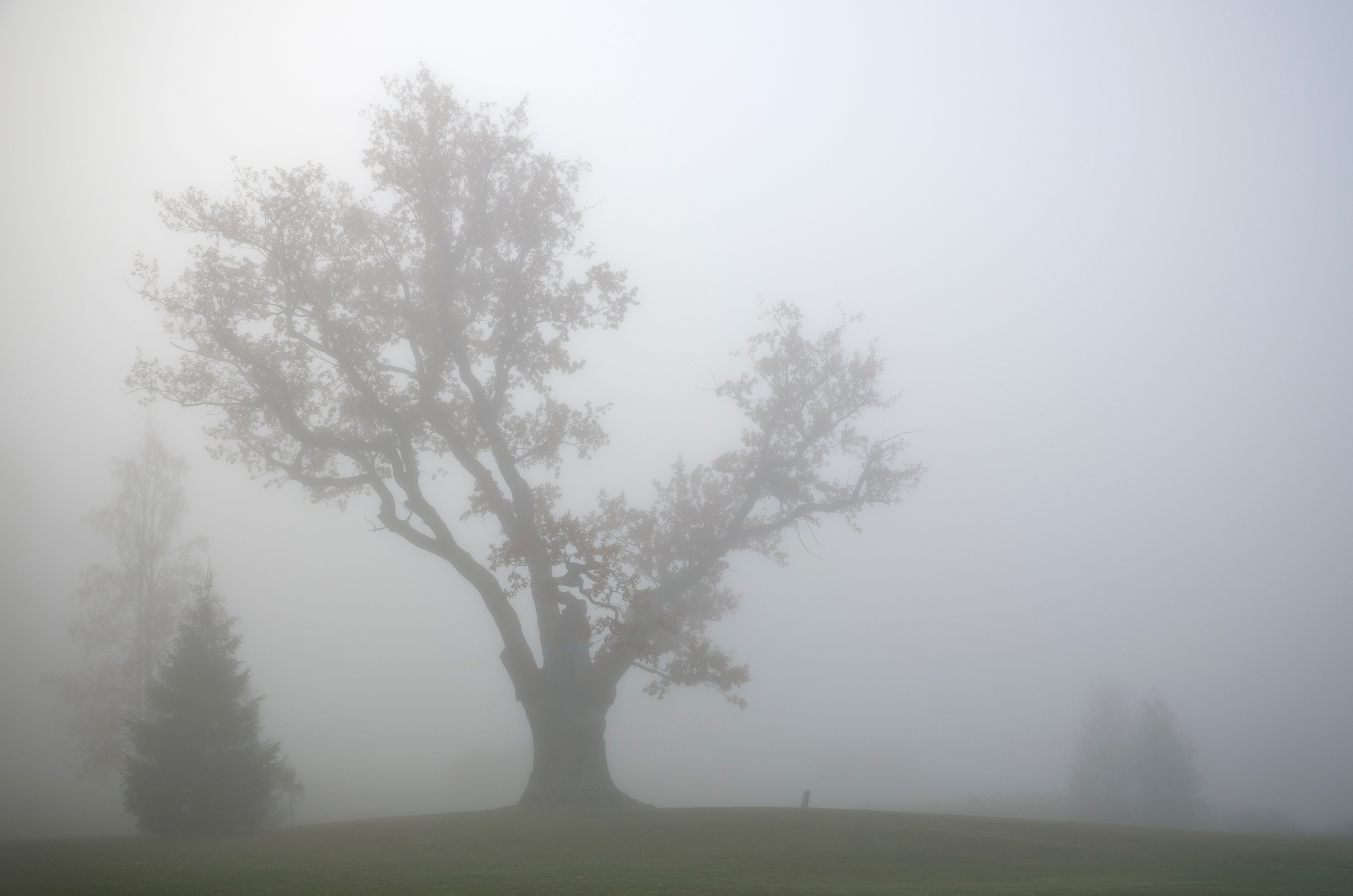 Pühajärve War Oak in mist, october 2013.